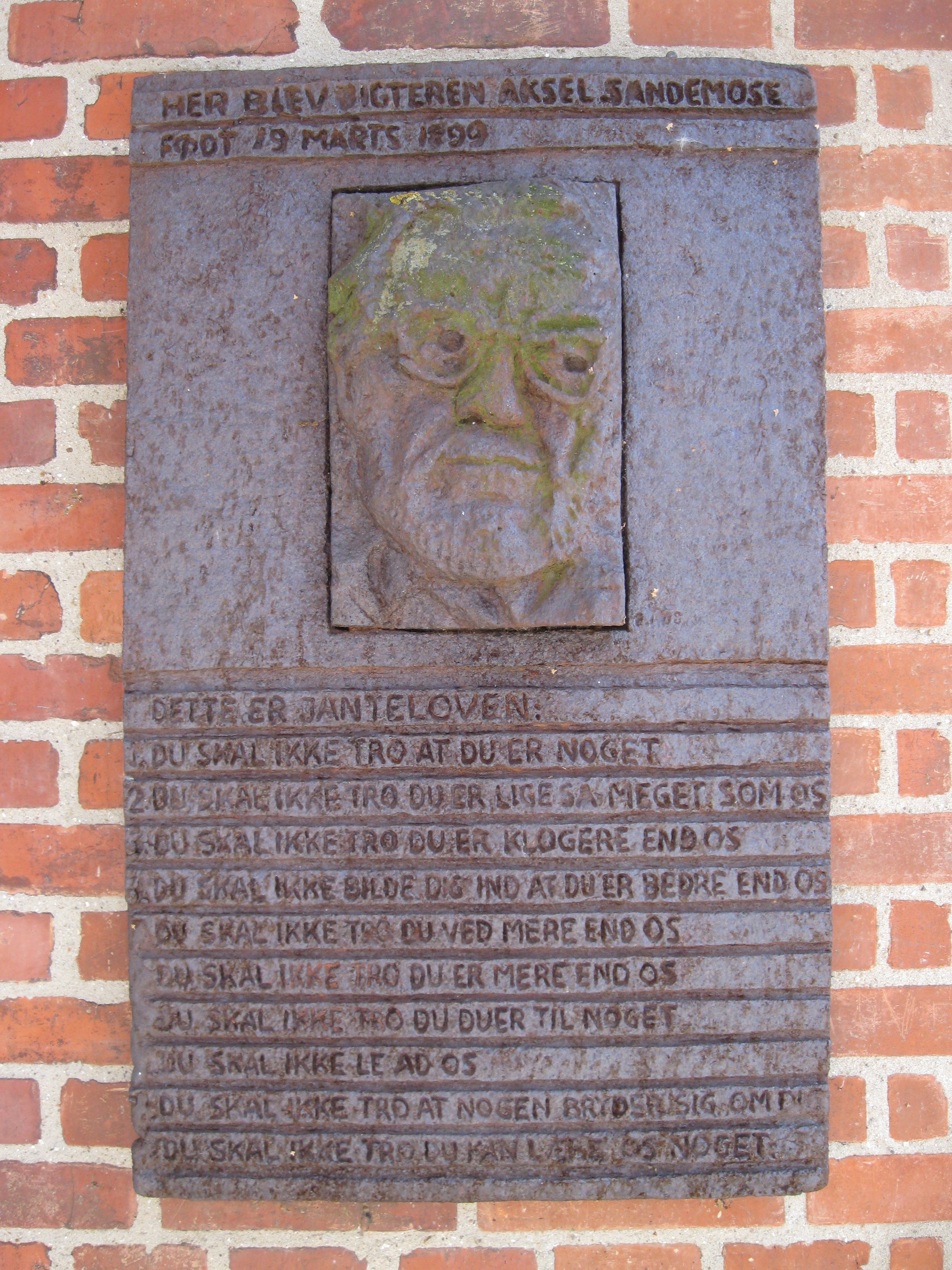 Janteloven written by Aksel Sandemose, Nykøbing Mors, Denmark